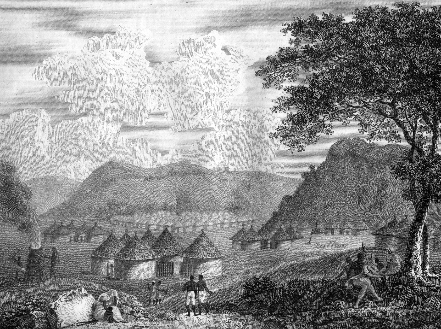 Mungo Park: Travels in the interior districts of Africa, 1st edition, London, Blumer, 1799